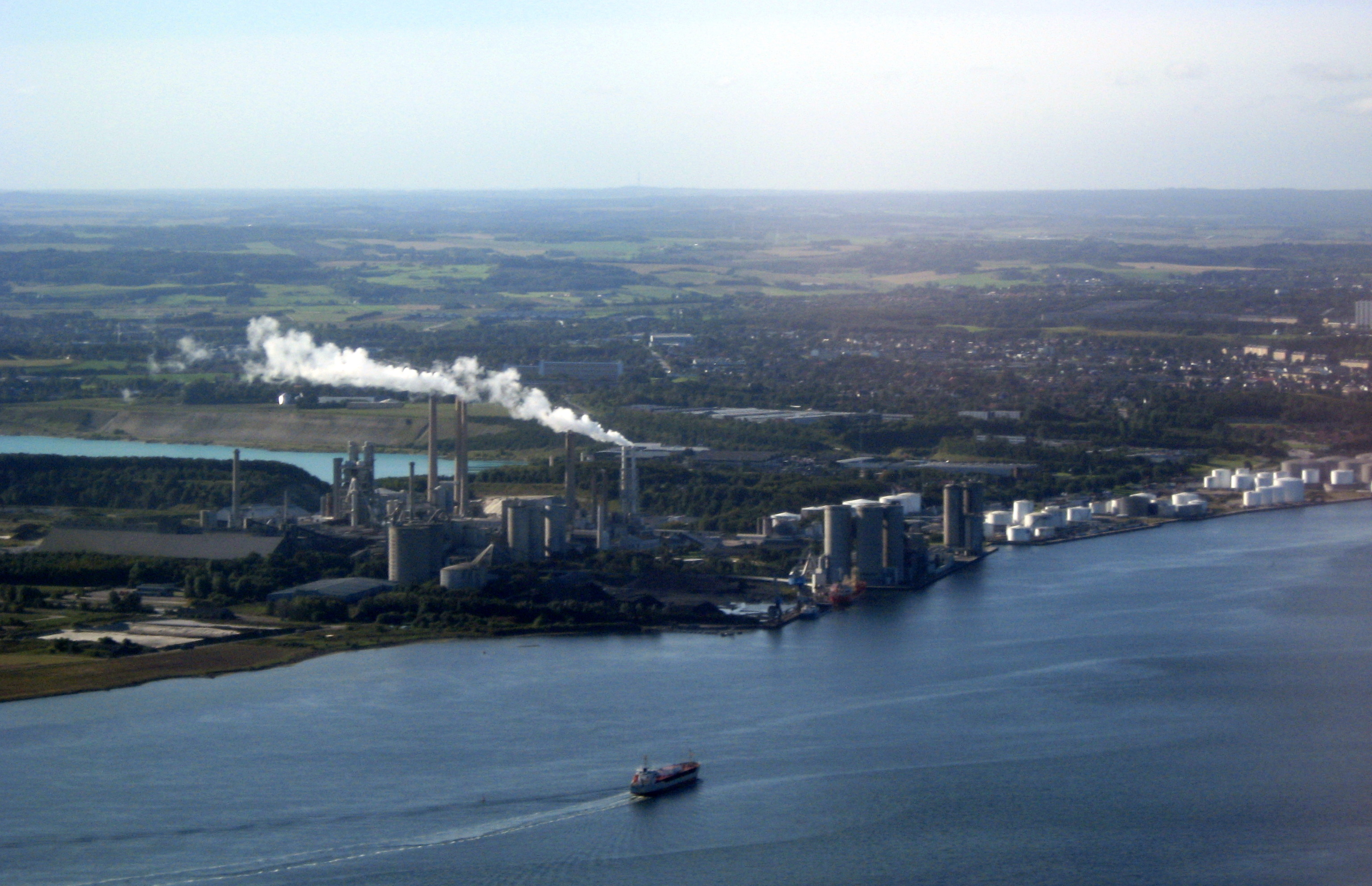 Aalborg Portland, Limfjord, Aalborg, Denmark